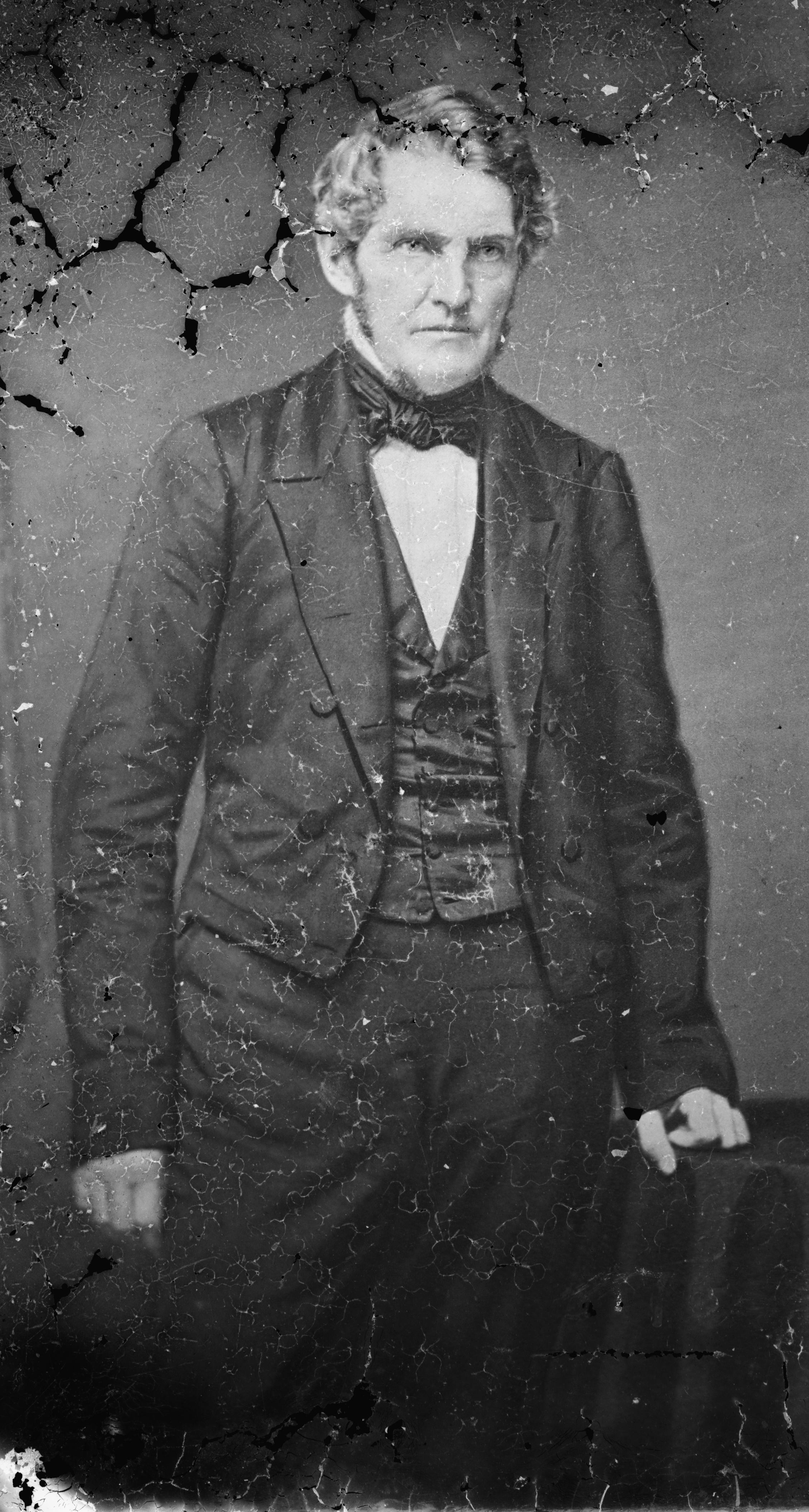 James F. Simmons. Library of Congress description: "Hon. Jas. F. Simmons"